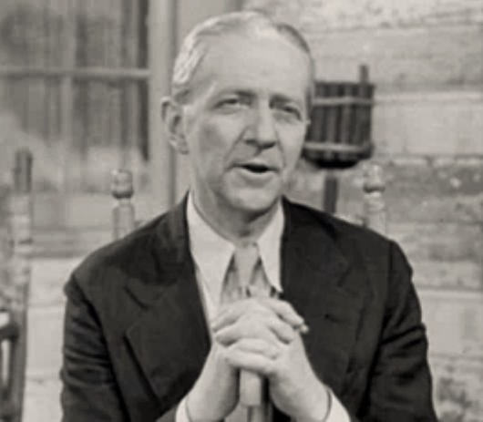 Charles Waldron in the American film Escape by Night (1937) - cropped screenshot.